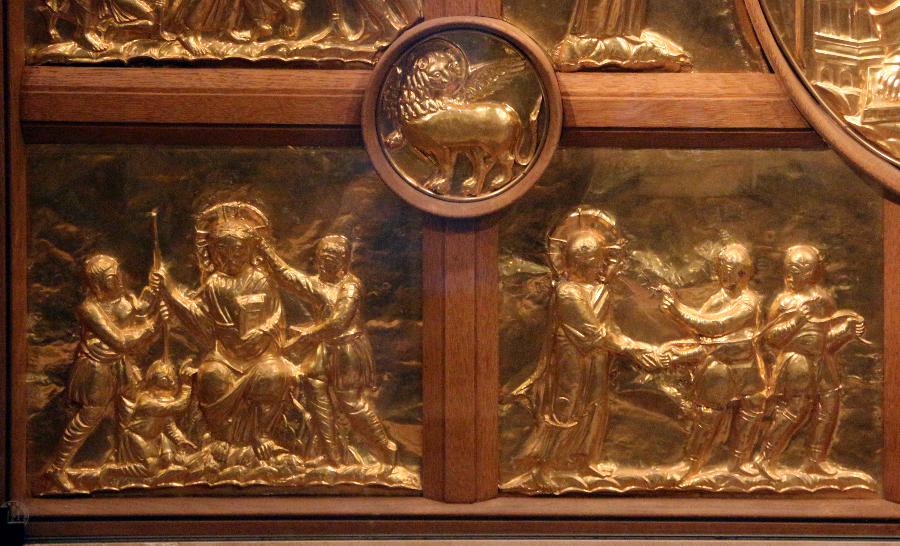 Pala d’oro (Aachen)